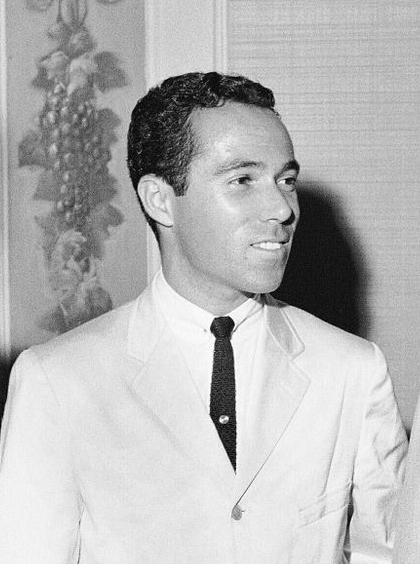 Photograph of the U.S. artist Howard Kottler (1930–1989) during his visit to Finland.